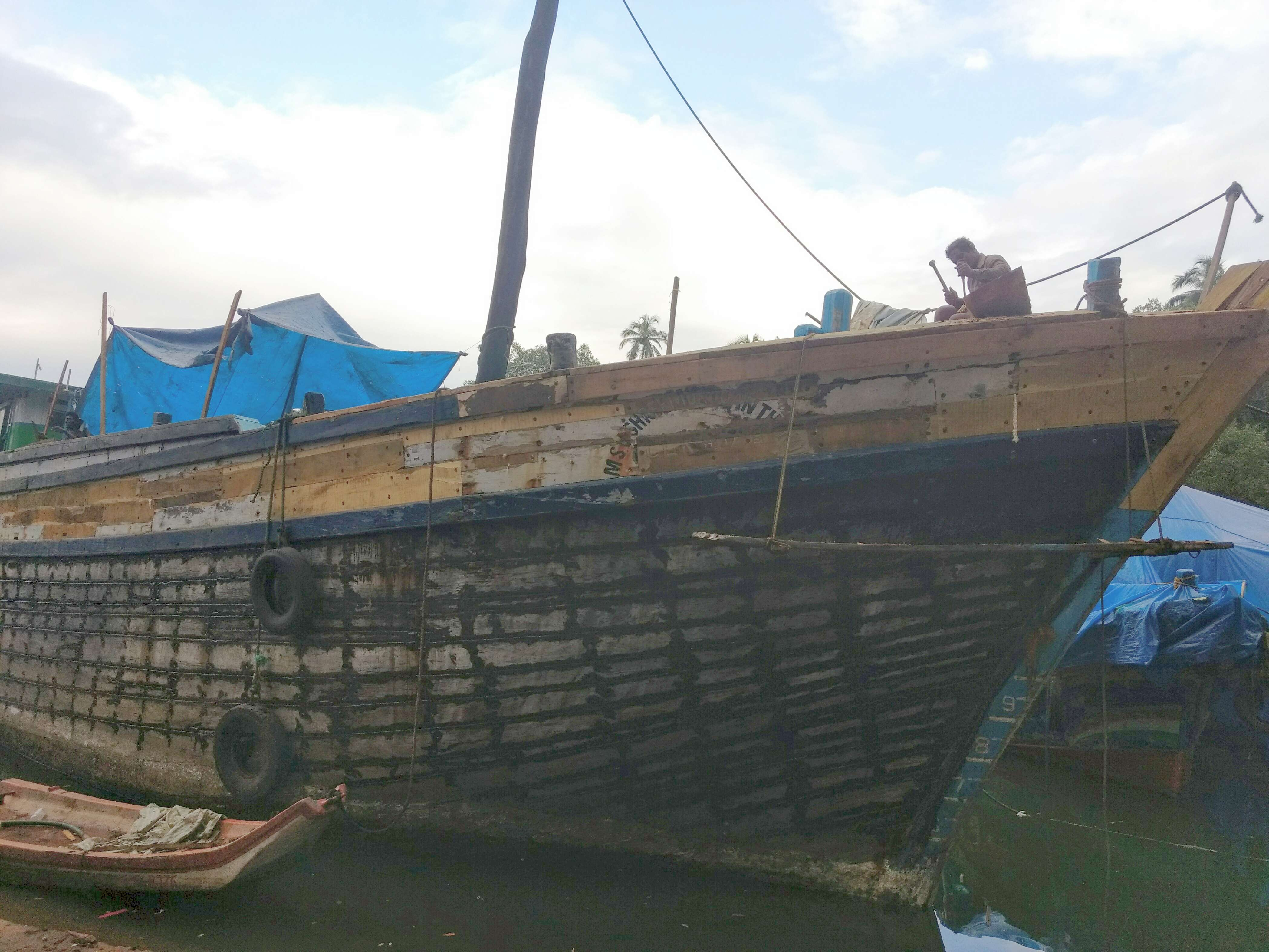 Traditional ship carpenters at work on an Uru that carries cargo to Lakshadweep. Beypore.